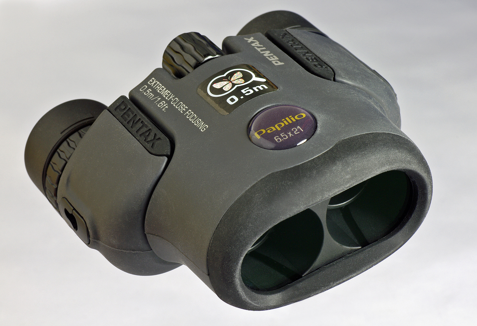 The binocular Pentax Papilio 6.5 × 21 allows an extremely close minimum working distance of 50 cm / 1.6 ft.